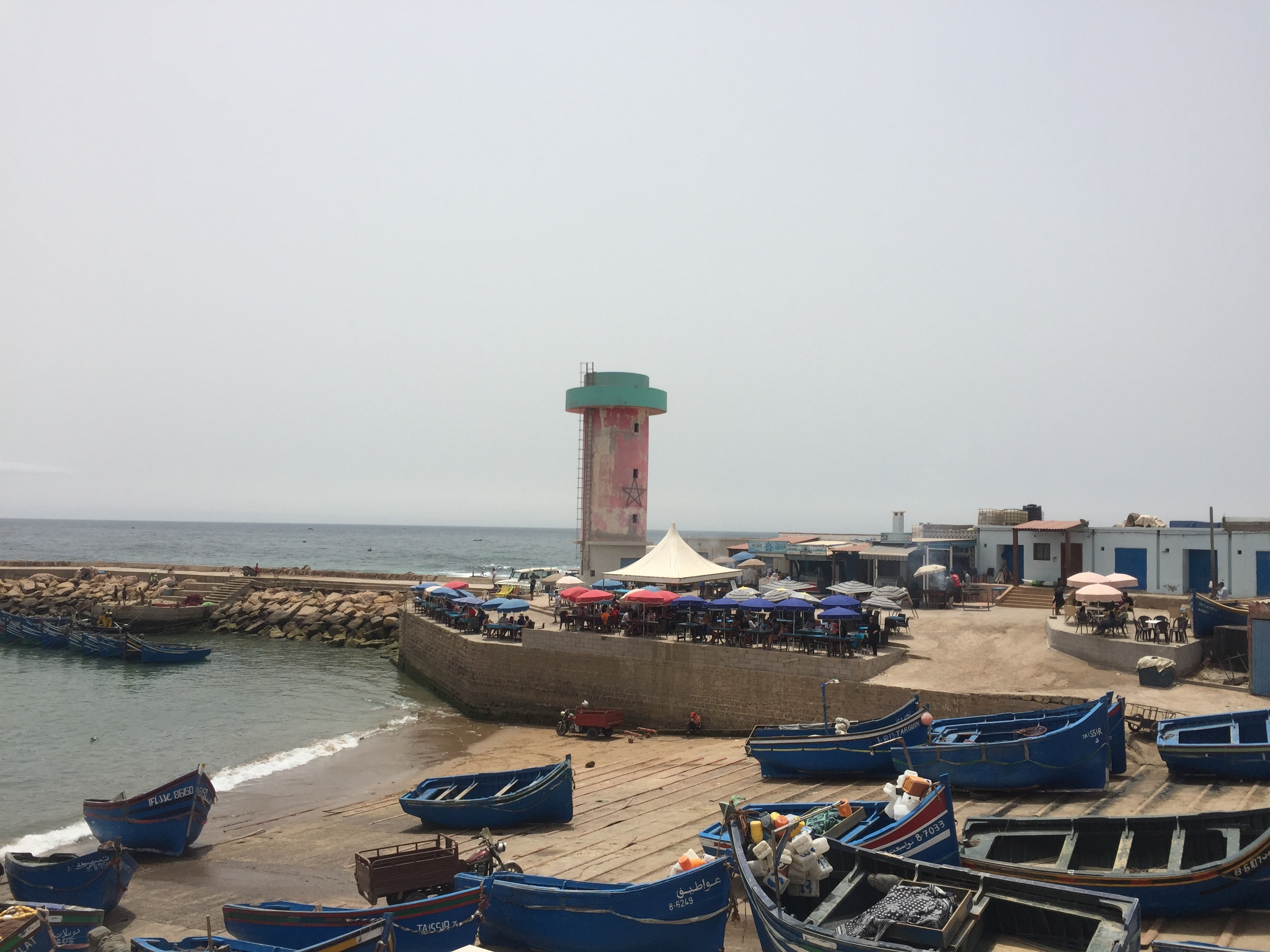 i take this picture in beach of Imsouane